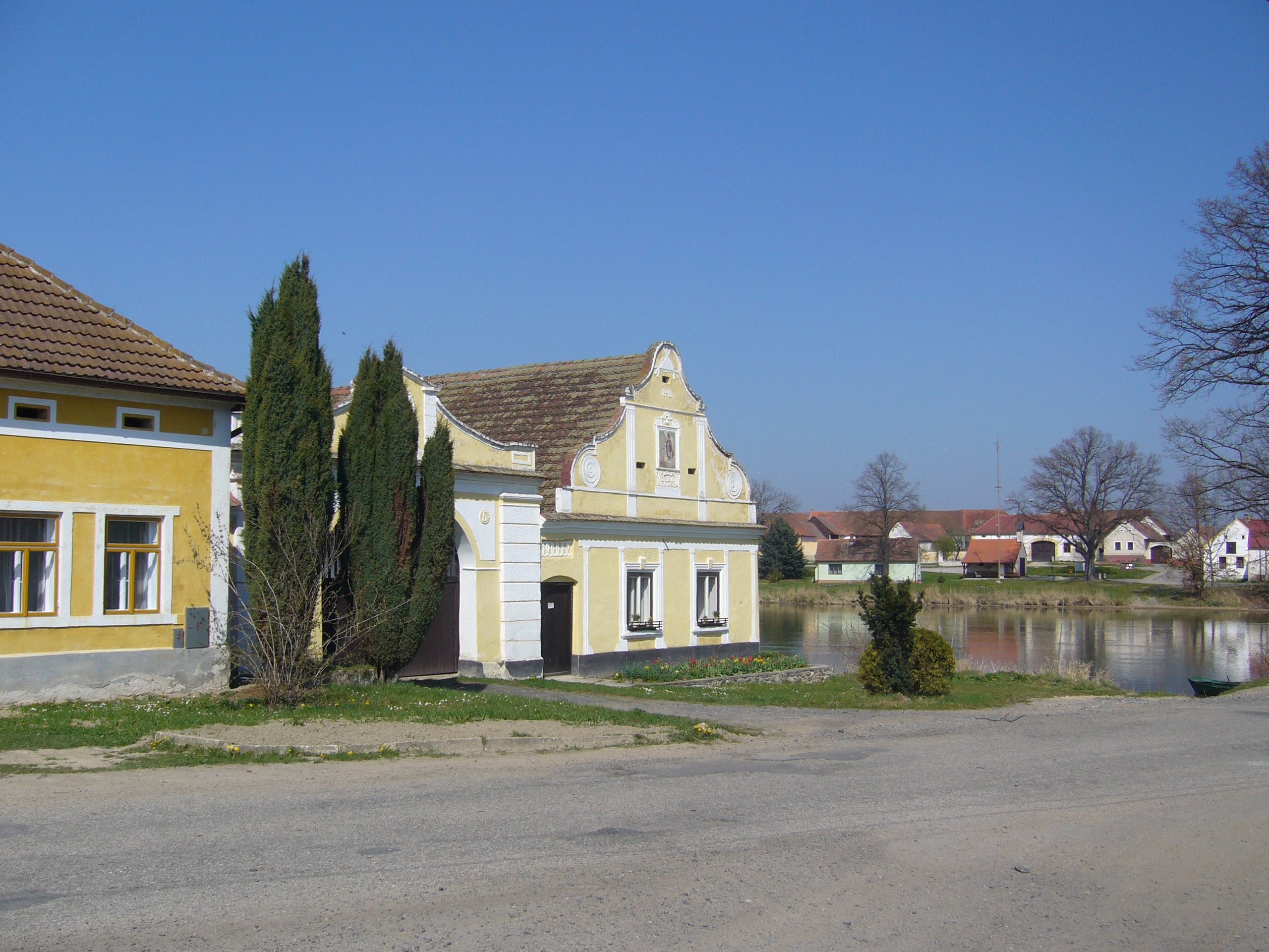 Rural homestead, Vlhlavy (part of Sedlec), South Bohemia region